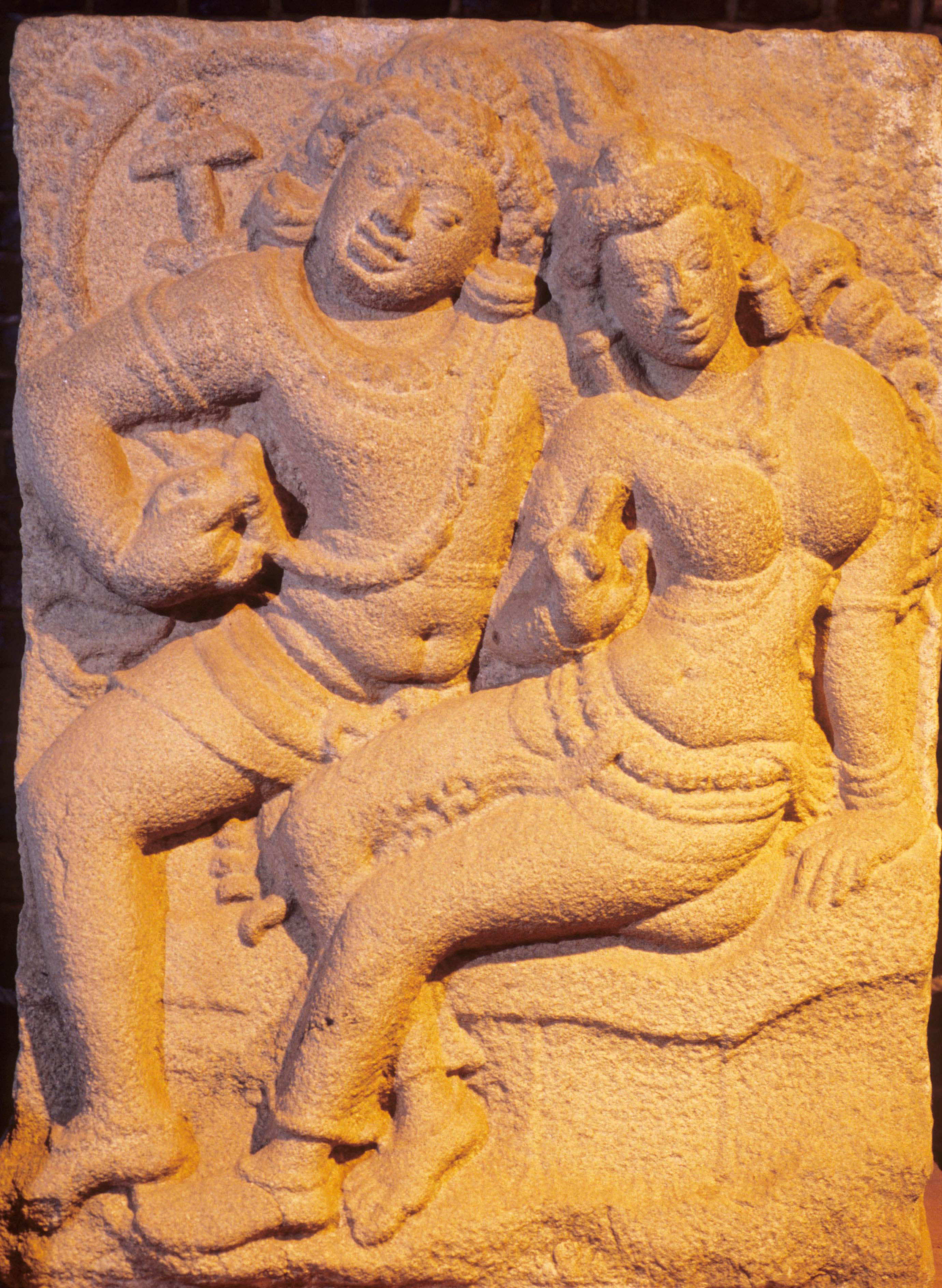 Isurumuniya Lovers carving in Isurumuniya Viharaya